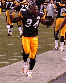 Verron Haynes on sidelines during preseason Steelers/Eagles game